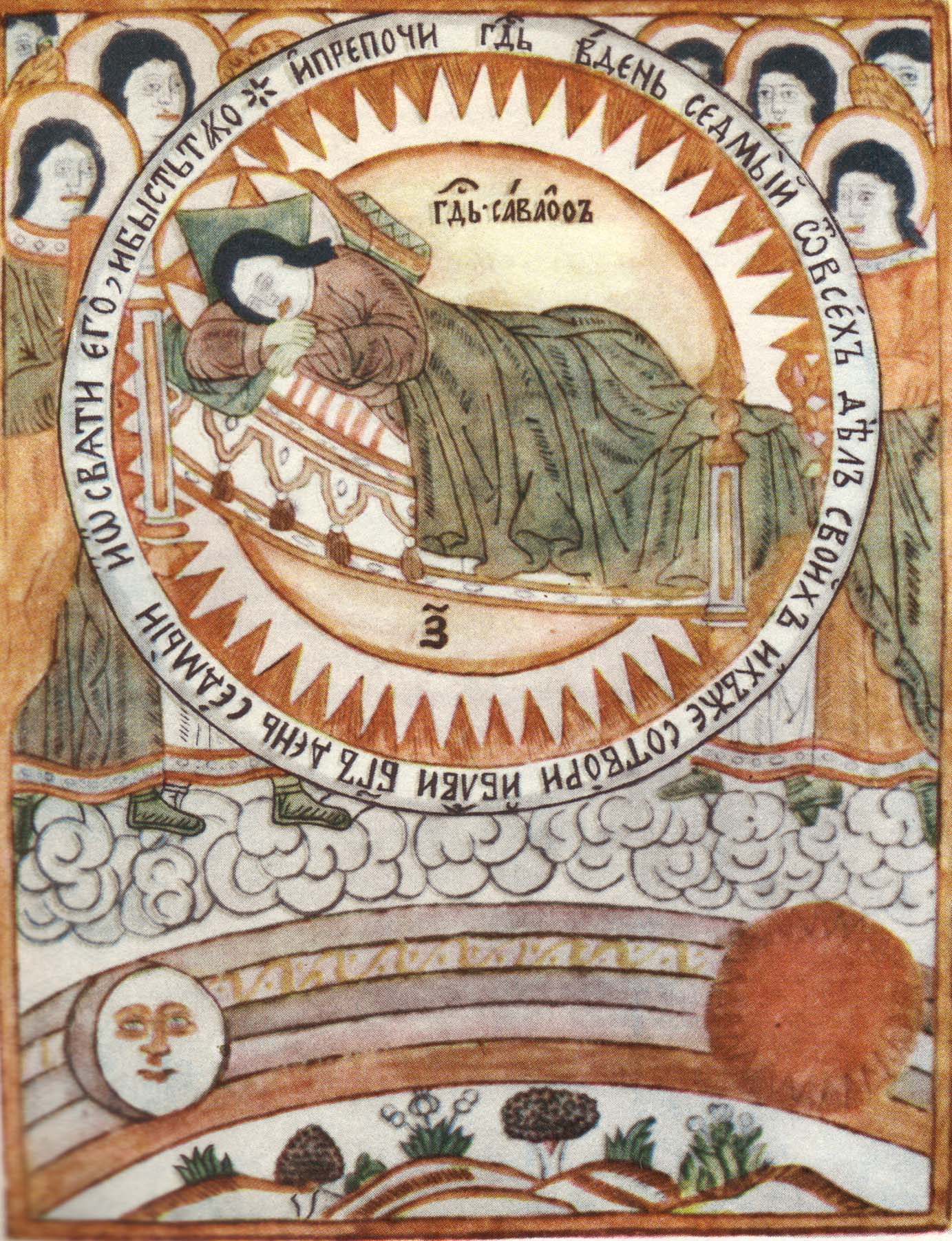 God reposing on Sabbath day. Illustration from the first Russian engraved Bible. Василий Корень. Лист 7 „И почи господь в день седьмый" 35,5 х 27,5